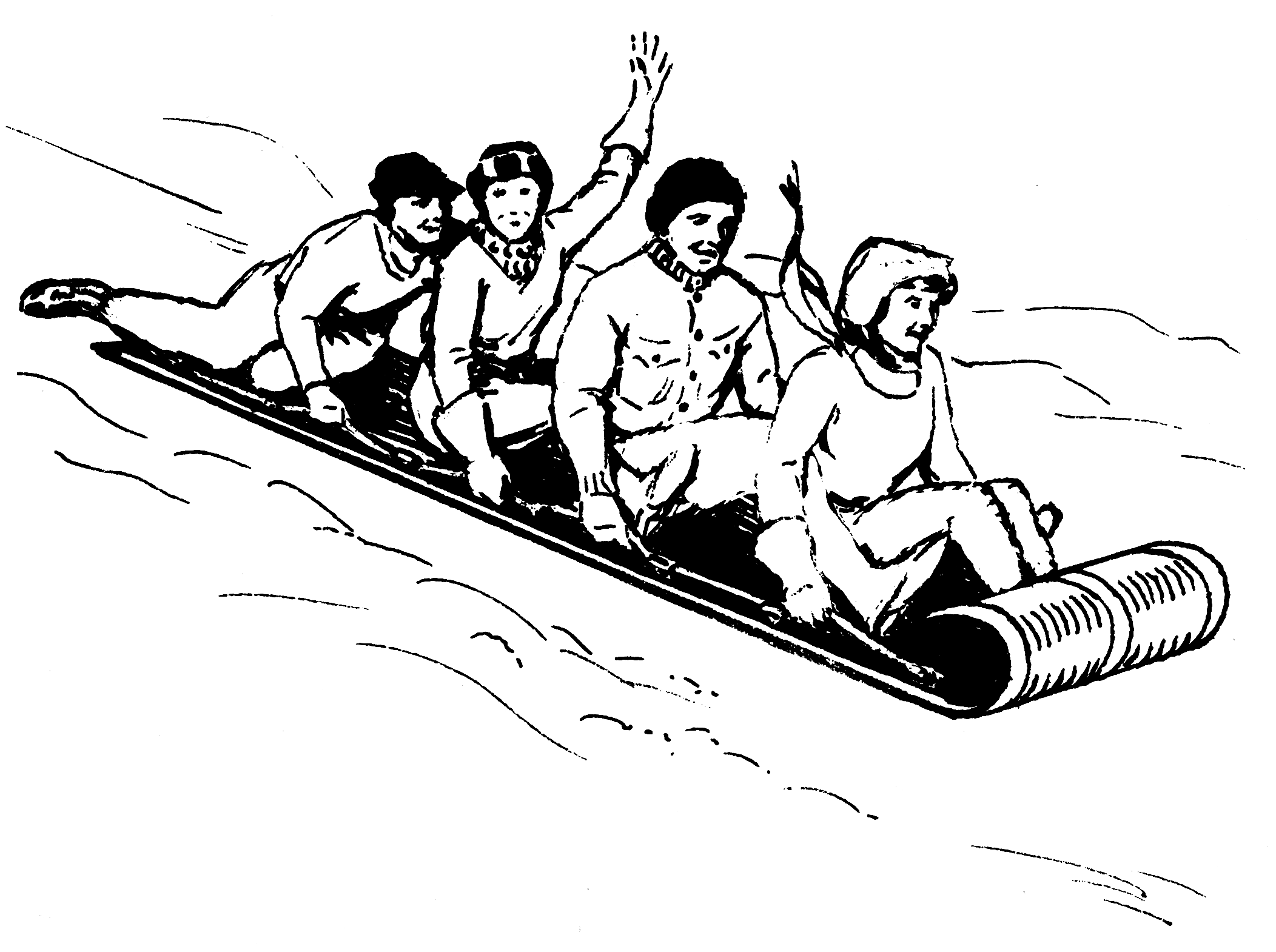 Line art drawing of a toboggan